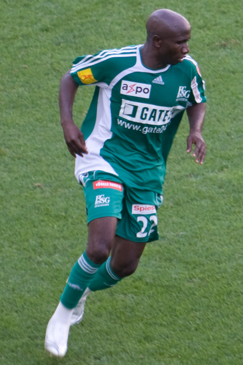 Guy Armand Feutchine, soccer player FC St. Gallen